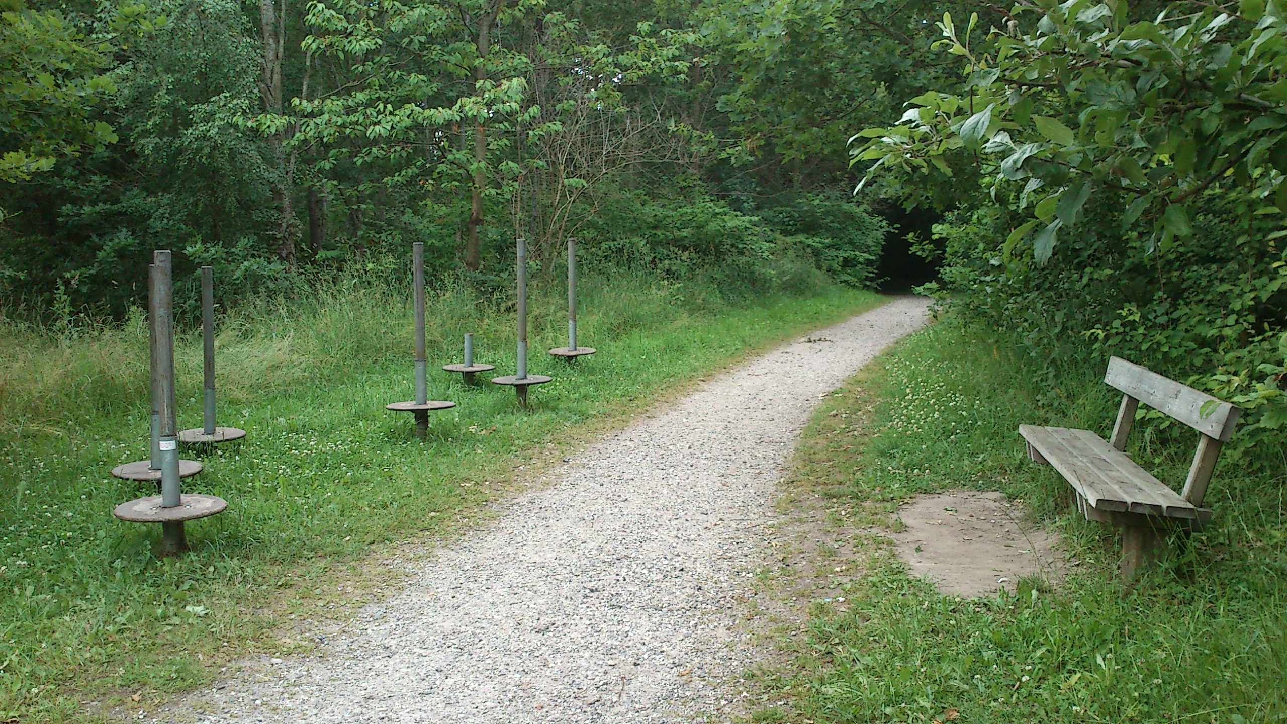 Free standing low-tech exercise equipment in Gellerup Skov. The plates are for balance training.